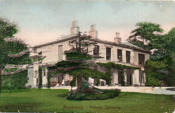 Old postcard of Victoria Infirmary at Northwich